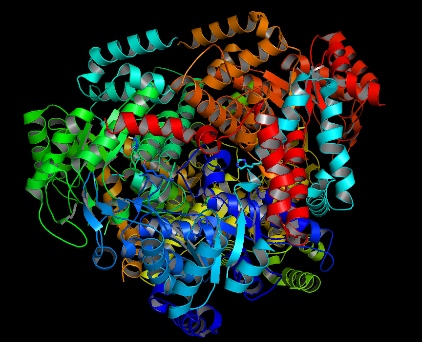 This file shows the hometetrameric structure of isocitrate lyase. Each chain is in a different color. In chain A (the blue chain), amino acid residues corresponding to catalytic residues have been highlighted.